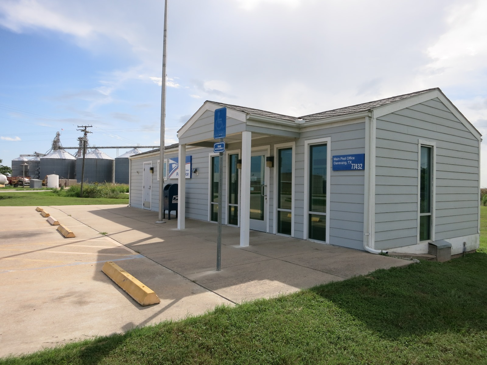 Photo shows the US Post Office at State Highway 71 and County Road 424 in Danevang, Texas. A large silo can be seen in the background. View is south.